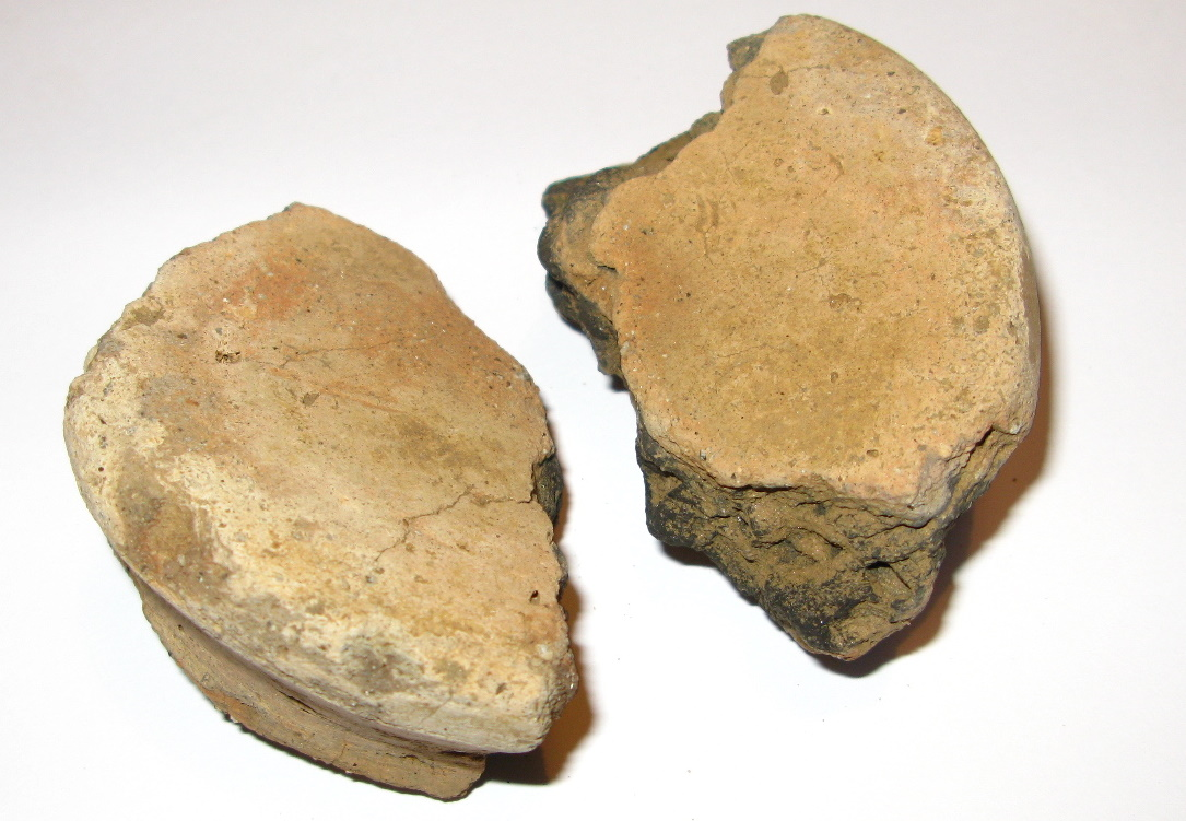 Remains of a ring as a ceramic jar from an earthenware jar (Bronze Age Laugen-Melaun) found in the cemetery of the village Obermillstatt near Lake Millstatt (Millstätter See), district Spittal an der Drau in Carinthia / Austria / EU. This pottery is the oldest traces of settlement in the local area.